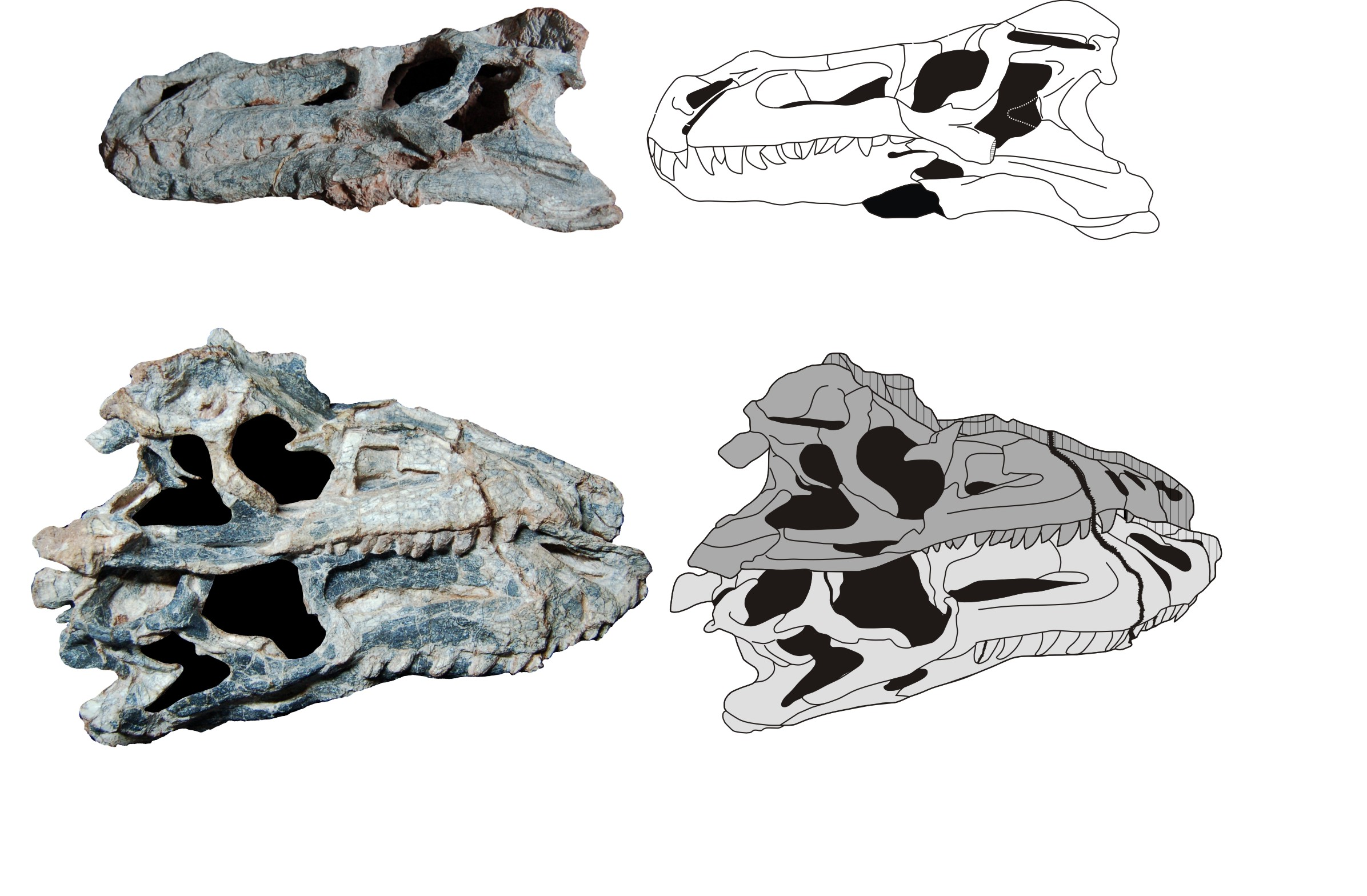 decuriasuchus skulls